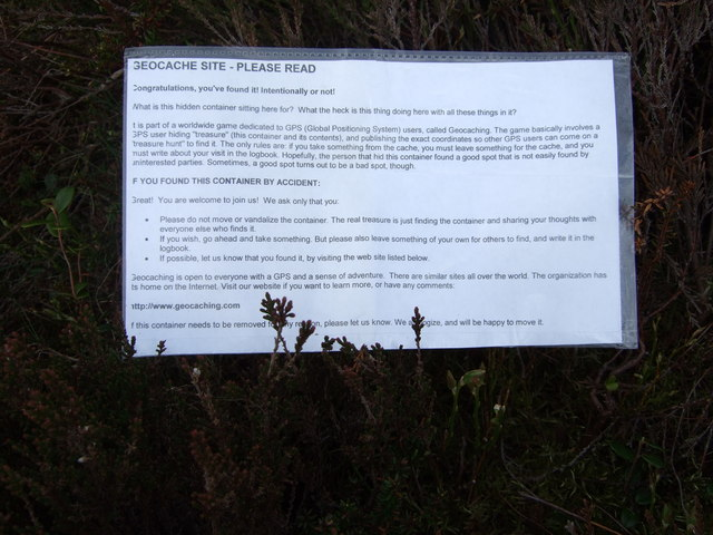 A message from under the stone on the Hill of Fare Geocaching seems to be another kind of Geographing!